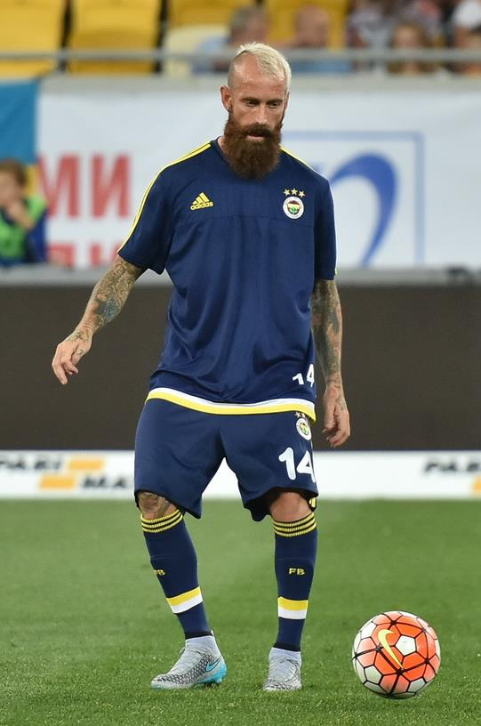 Shakhtar Donetsk - Fenerbahçe 05 August 2015 Champions League Third qualifying round